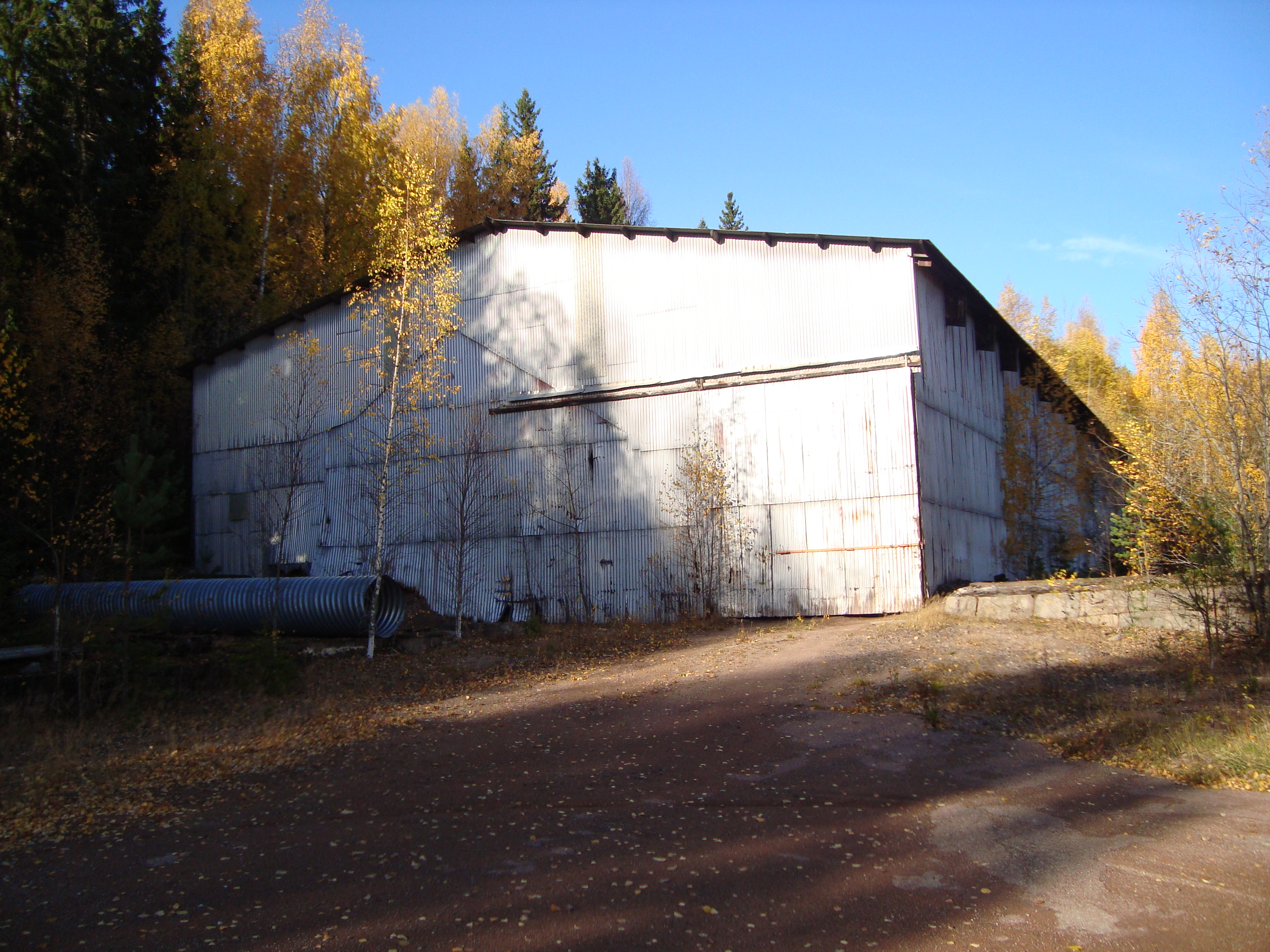 Remains of the sulphite factory in Turbo ('luck settlement'), Hedemora municipality, Sweden